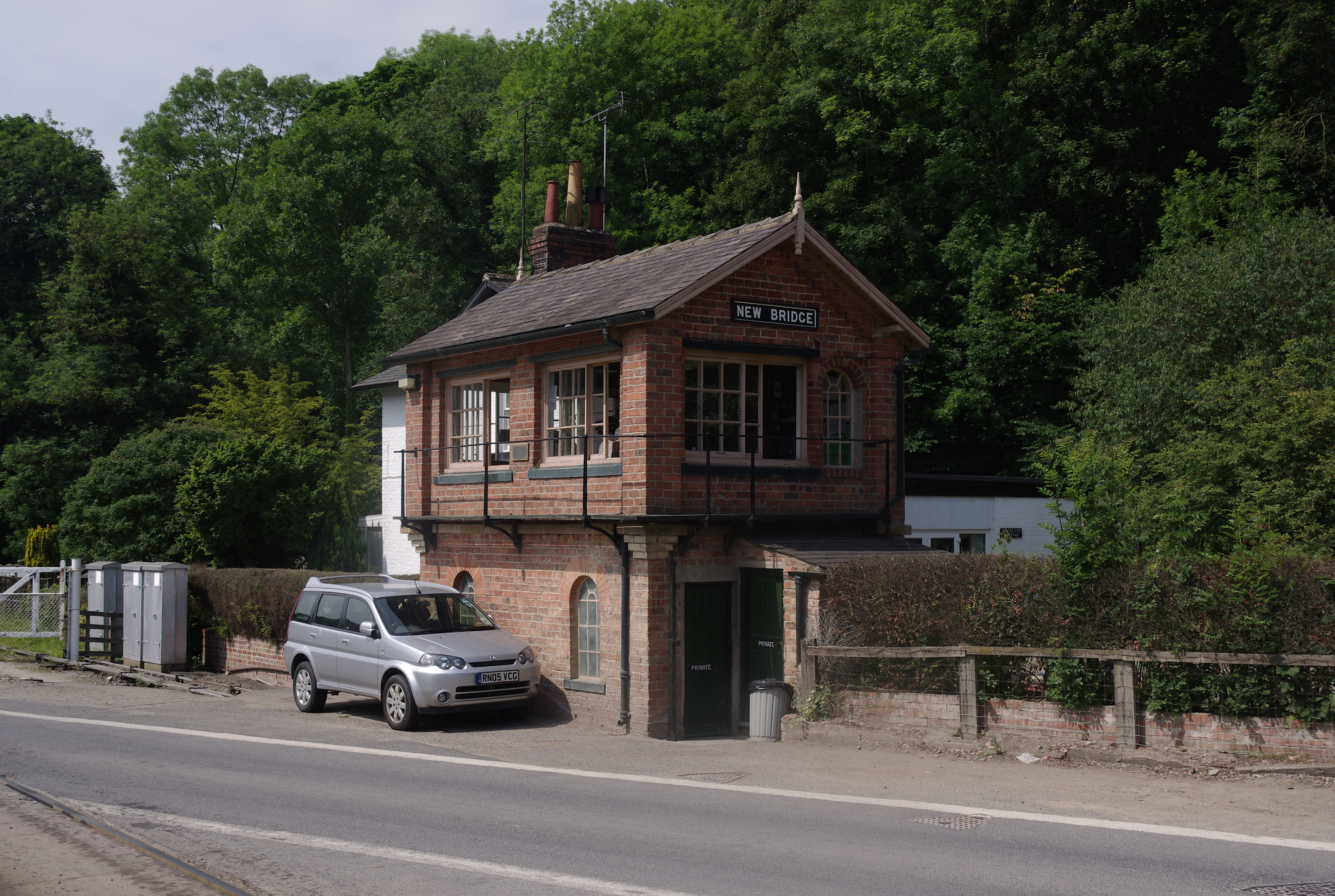 New Bridge signal box on the North Yorkshire Moors Railway. Intriguingly the level crossing is "Newbridge" but the signal box is "New Bridge".